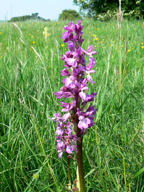 Orchid, Rodborough Common I read that the Common is home to 13 species of orchids. My handy reference book the Jeremy Clarkson book of wild flowers identifies this as a Fragrant Orchid (Gymnadenia conopsea).